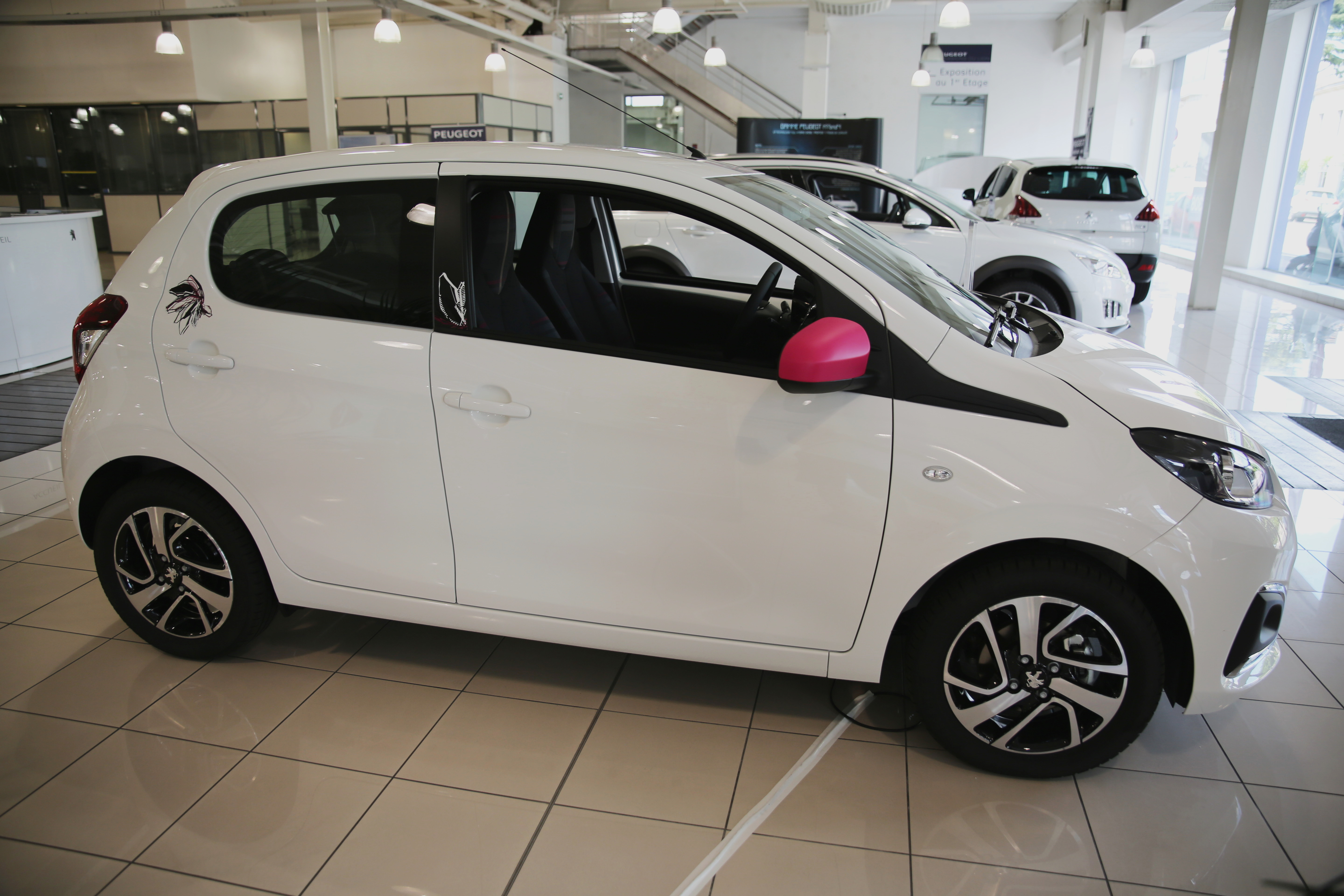 Peugeot 108 2014